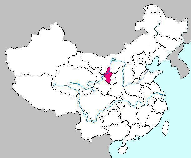 Maps of Ningxia Autonomous Region of China